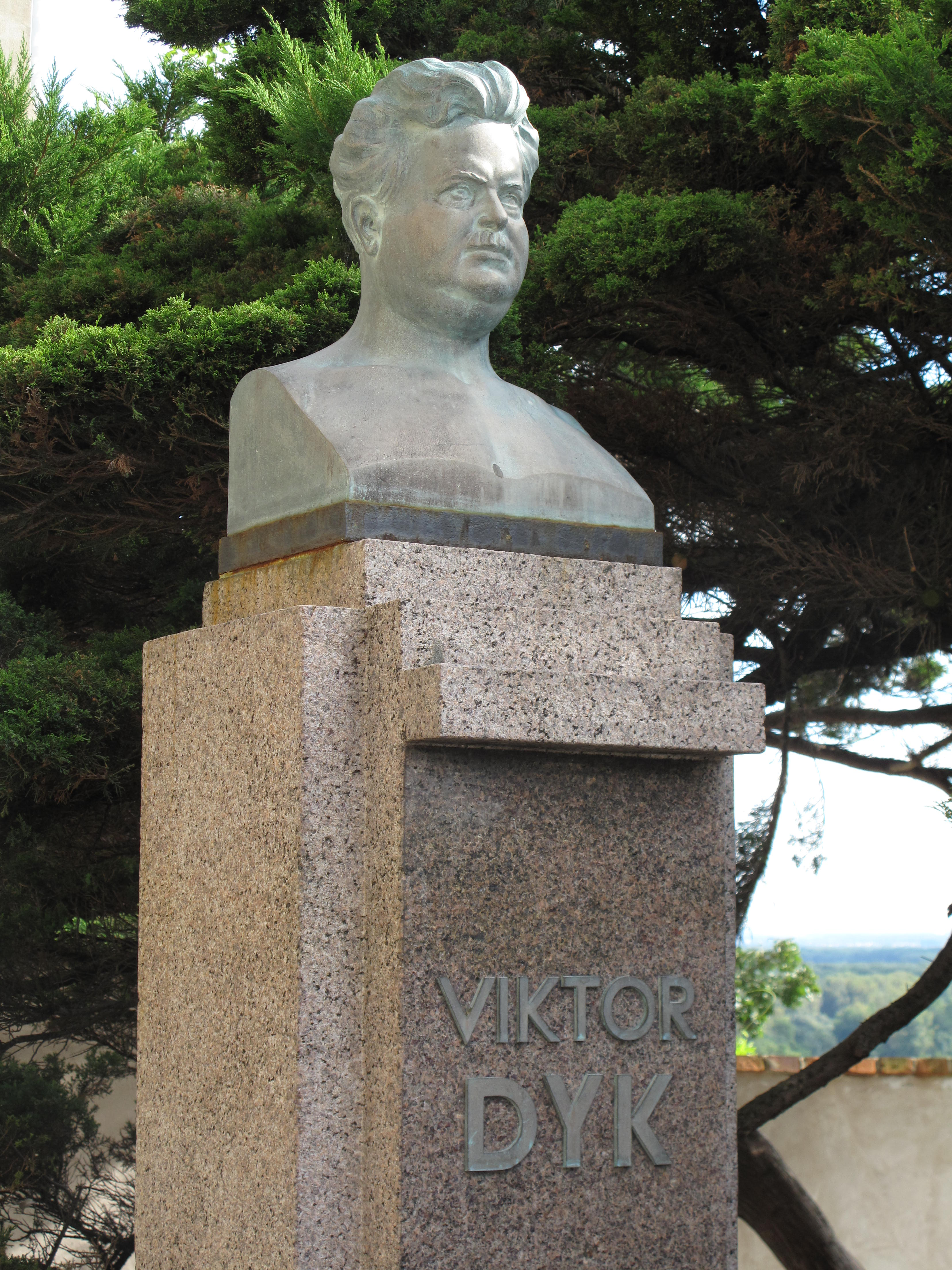 Viktor Dyk bust. (December 31, 1877 in Pšovka u Mělníka, Austria-Hungary – May 14, 1931 Lopud, Yugoslavia) He was a Czech poet, prose writer, playwright, politician and political writer